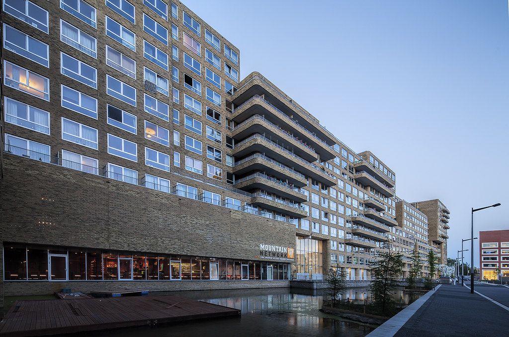 Building 'De Tribune' (design: Claus & Kaan Architecten), Laan van Spartaan, December 2012